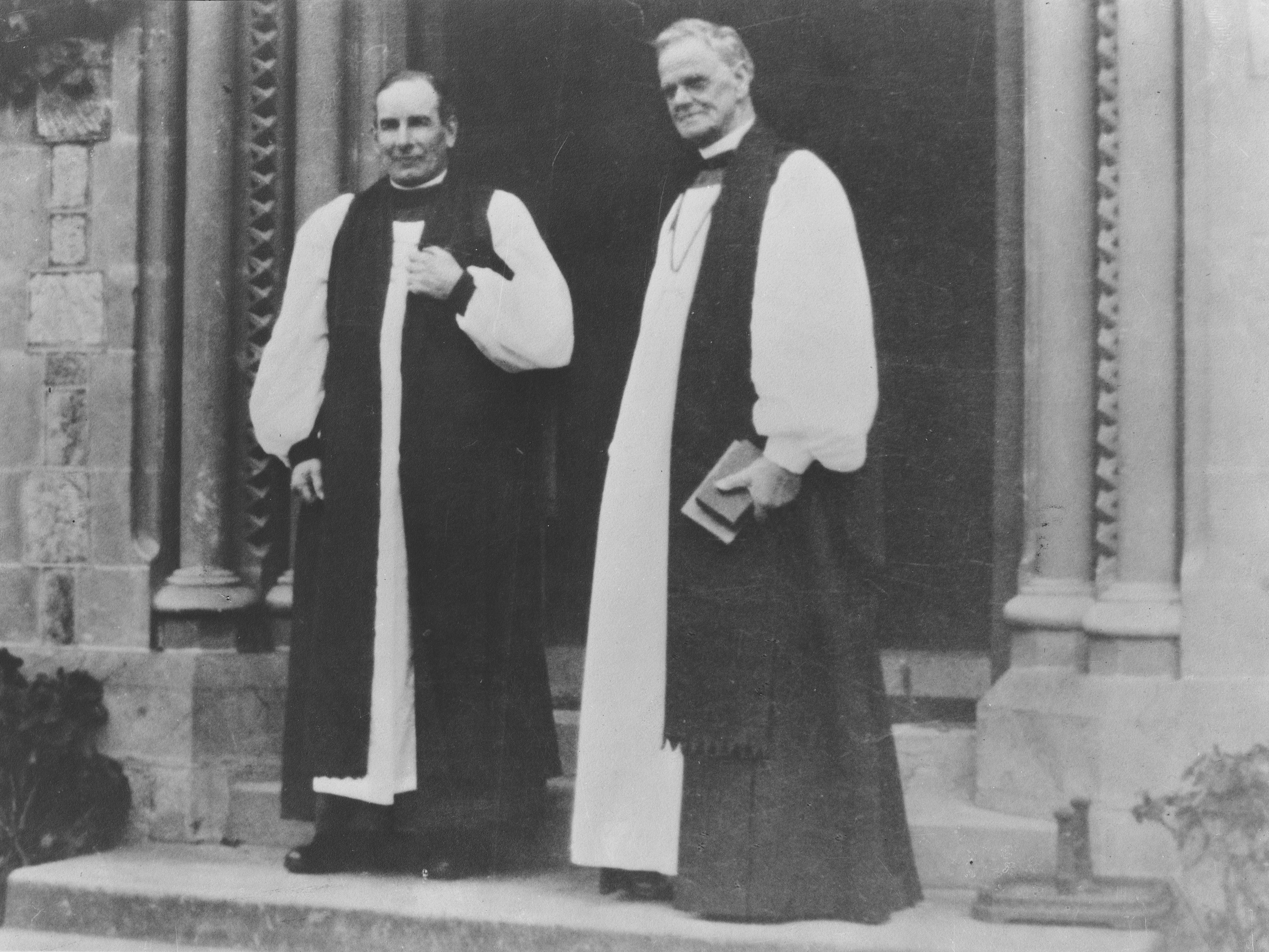 Anglican bishops of Christchurch. Rt Rev Cambell West-Watson (left) incumbent from 1926 to 1951, and Rt Rev Churchill Julius incumbent from 1890 to 1925.